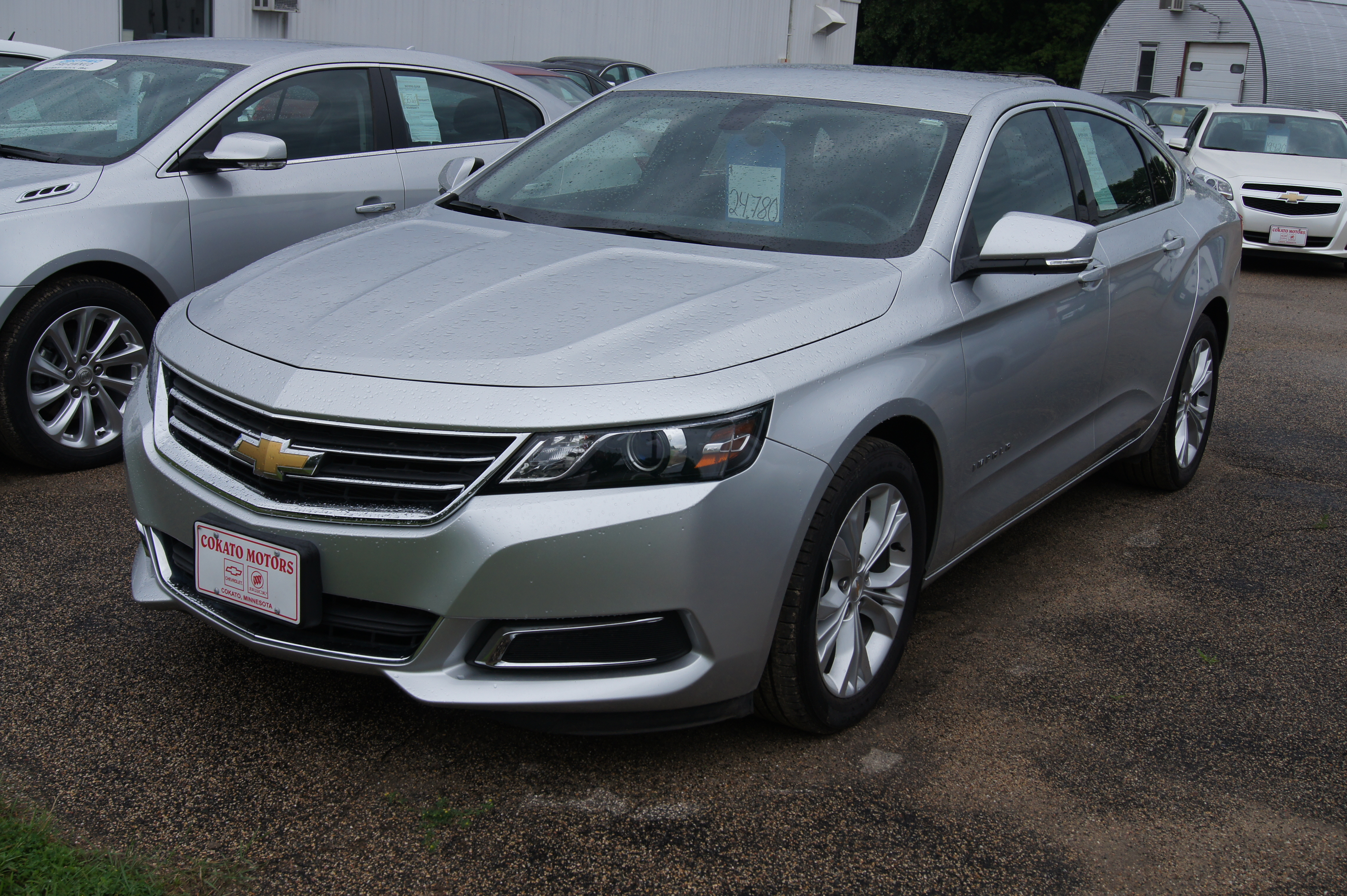 I bought my 2005 Dodge Magnum RT from Walser Chrysler Dodge in Hopkins. It came with free oil changes for life. I used to have relatives near the dealership that I would visit. They have all moved away, so now I just try to coordinate some car spotting for the trip. More Car Pictures